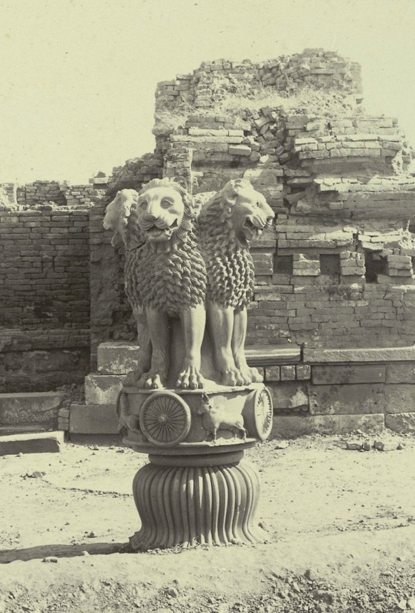 Photograph of the Lion Capital at Sarnath, Uttar Pradesh, from the Kitchener of Khartoum Collection: 'Views of Benares. Presented by the Maharaja of Benares' by Madho Prasad, c.1905 . Sarnath is the sacred place where the Buddha preached his first sermon known as the Wheel of Law, the Dharmachakra, in the sixth century BC. The Lion capital comes from a column at Sarnath in Uttar Pradesh, built by Ashoka, the Mauryan king who flourished in the third century BC. According to tradition, the pillars were raised at various points on the route of a pilgrimage that he undertook in the twentieth year of his reign. The capital, which became the national emblem of India in 1950, is in a museum in Sarnath. The Lion capital is a polished sandstone carving of four lions atop an abacus (the slab forming the top of a column). The lions are facing in four directions and on the abacus are eight images. Immediately below each lion is a dharmachakra, or wheel, with twenty-four spokes. This wheel has been incorporated into the national flag of India. Between the wheels are four animals – a lion, a horse, an elephant and a bull. Falling from the abacus is an upturned, bell-shaped lotus flower.